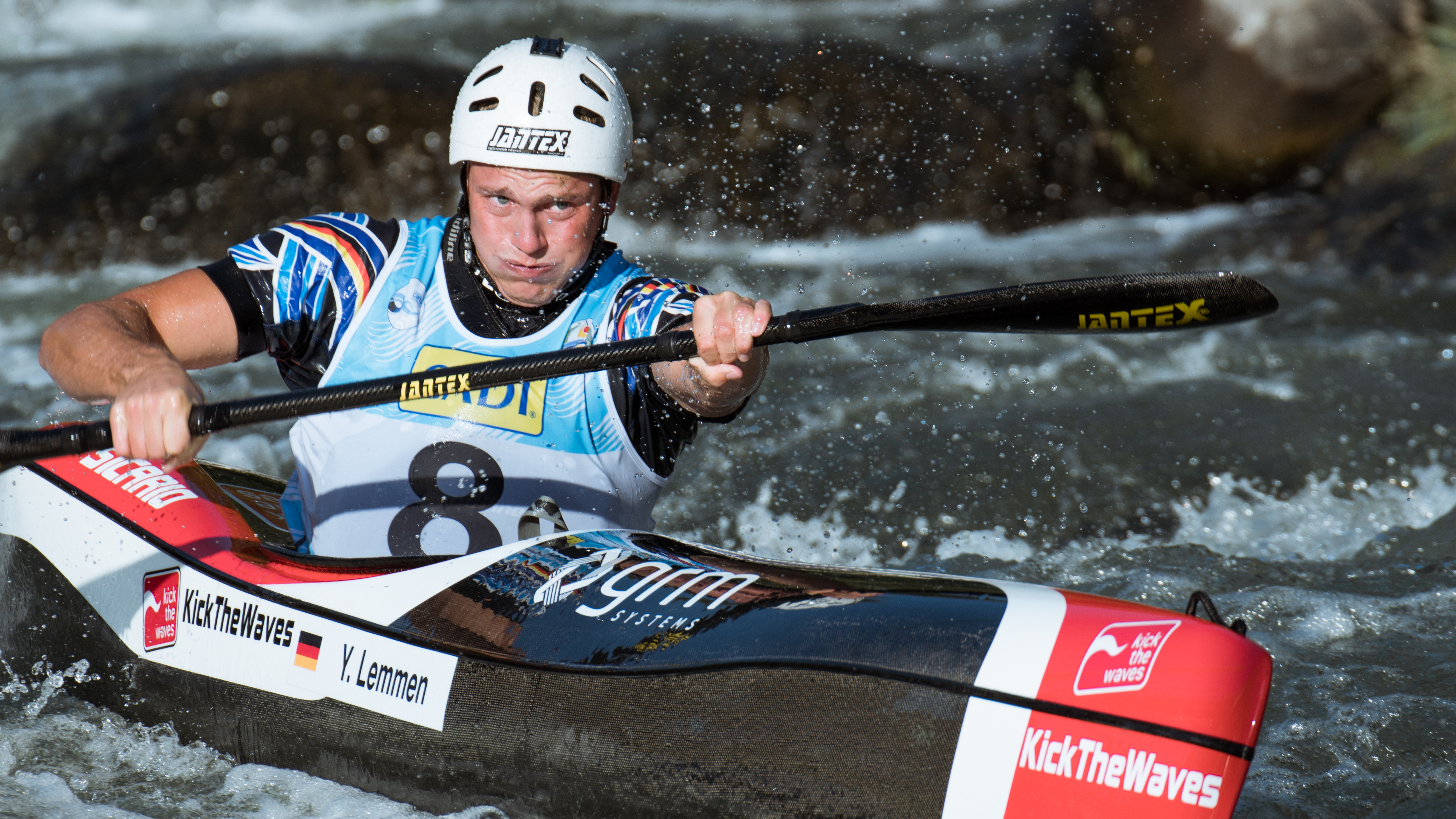 Yannic Lemmen during the 2019 Canoe Wildwater World Championships in La Seu d'Urgell, Spain.